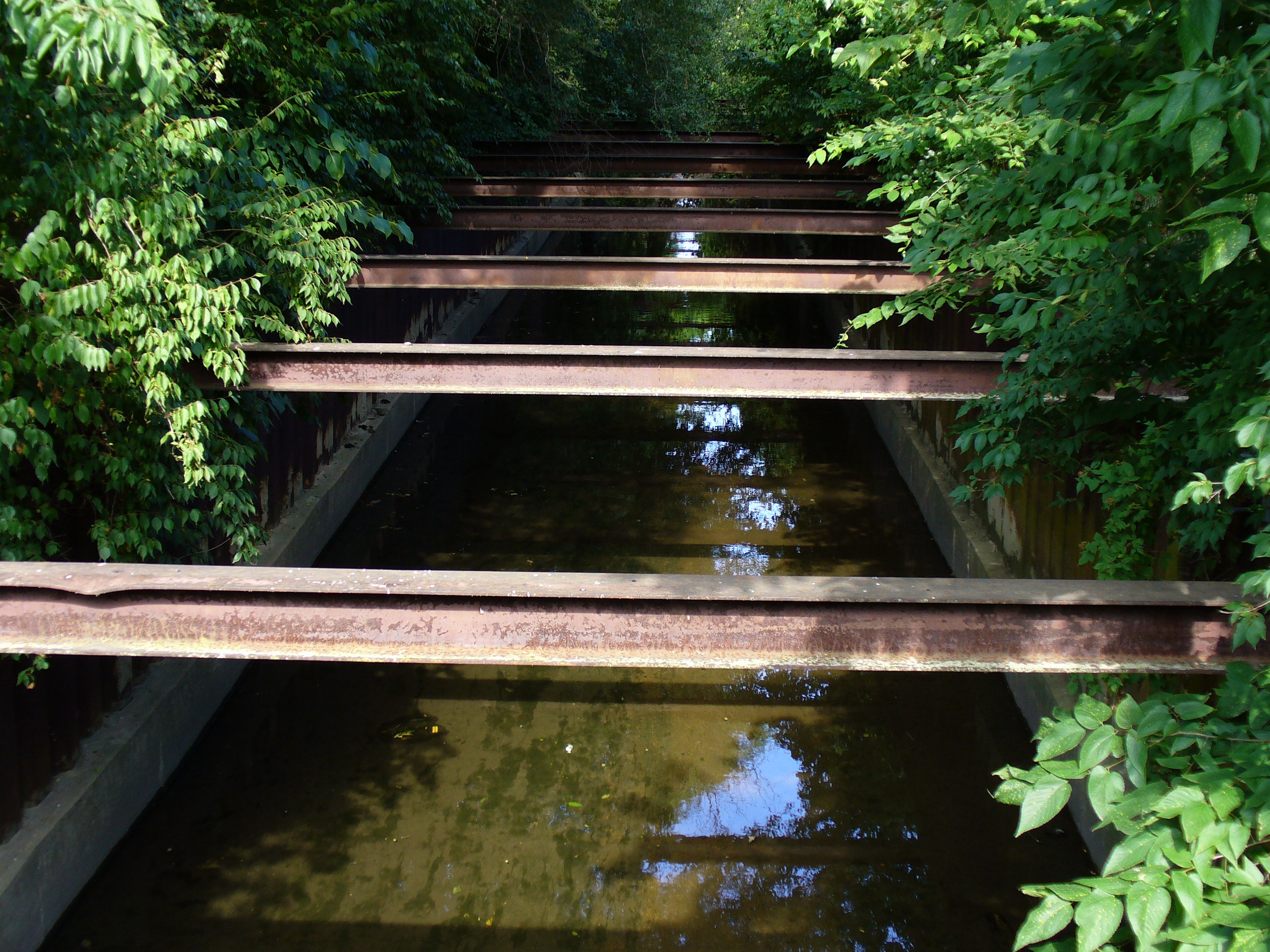 Boney encased in sheet pilings in Urbana, Illinois.